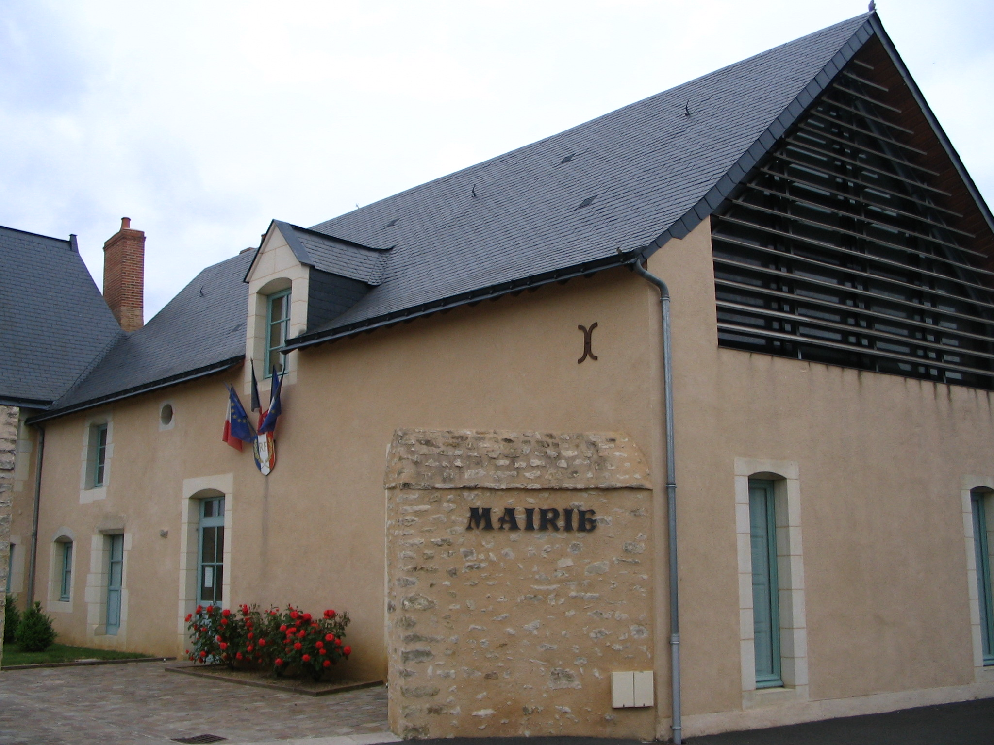 The town hall of Courtillers, Sarthe, France.